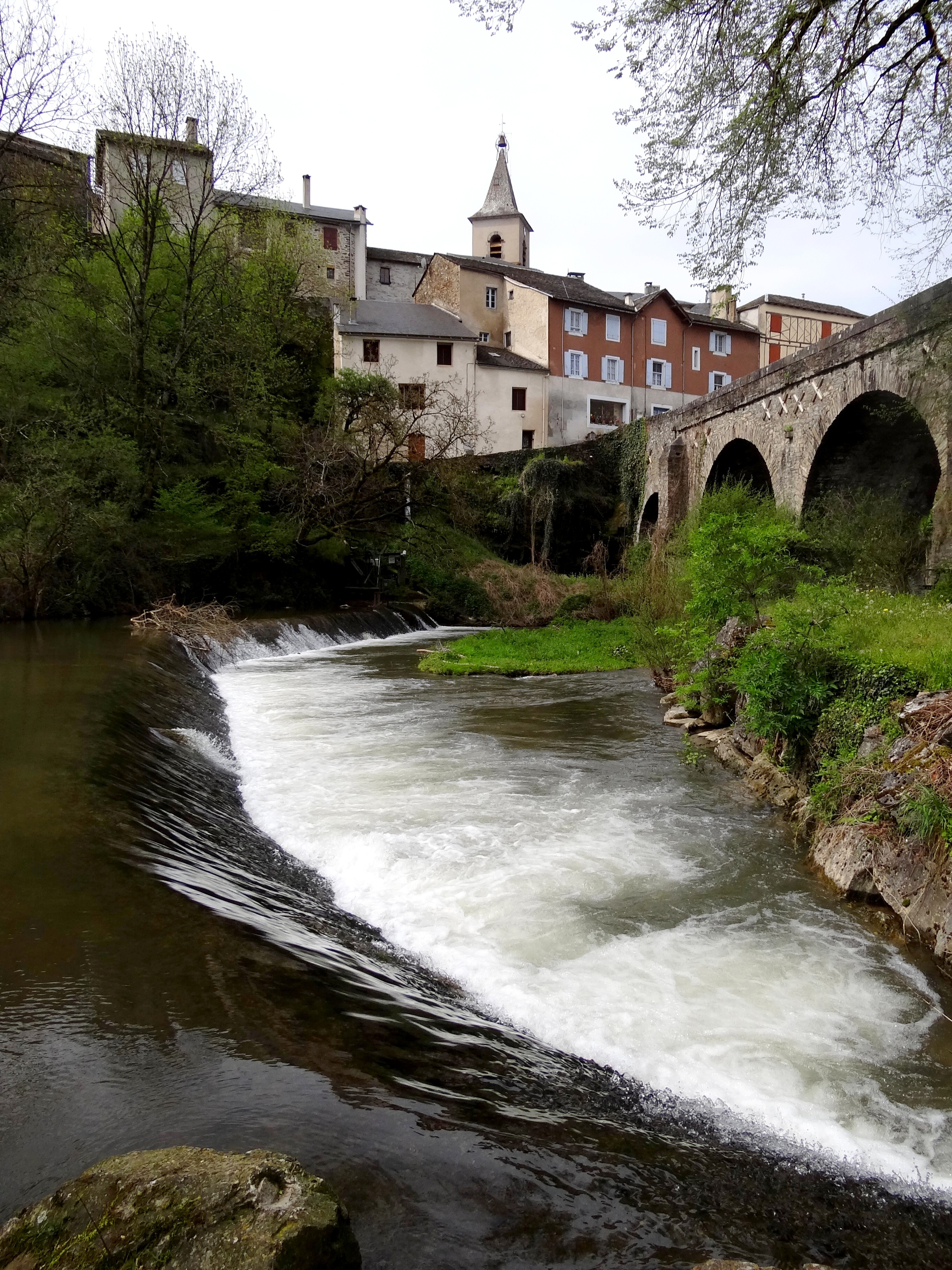 Gijou floor on the heart of the village, below the castle restored.